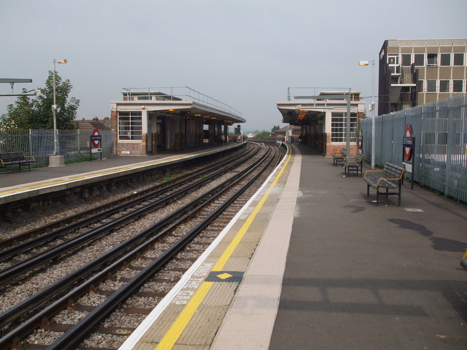 South Harrow tube station looking westbound (actually north here)